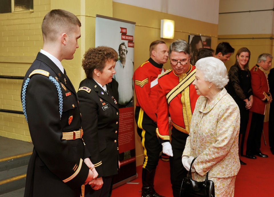 Lt. Col. Beth Steele, Commander of the U.S. Army Europe Band and Chorus, and another soldier meet Her Majesty The Queen at the English Military Tournament.